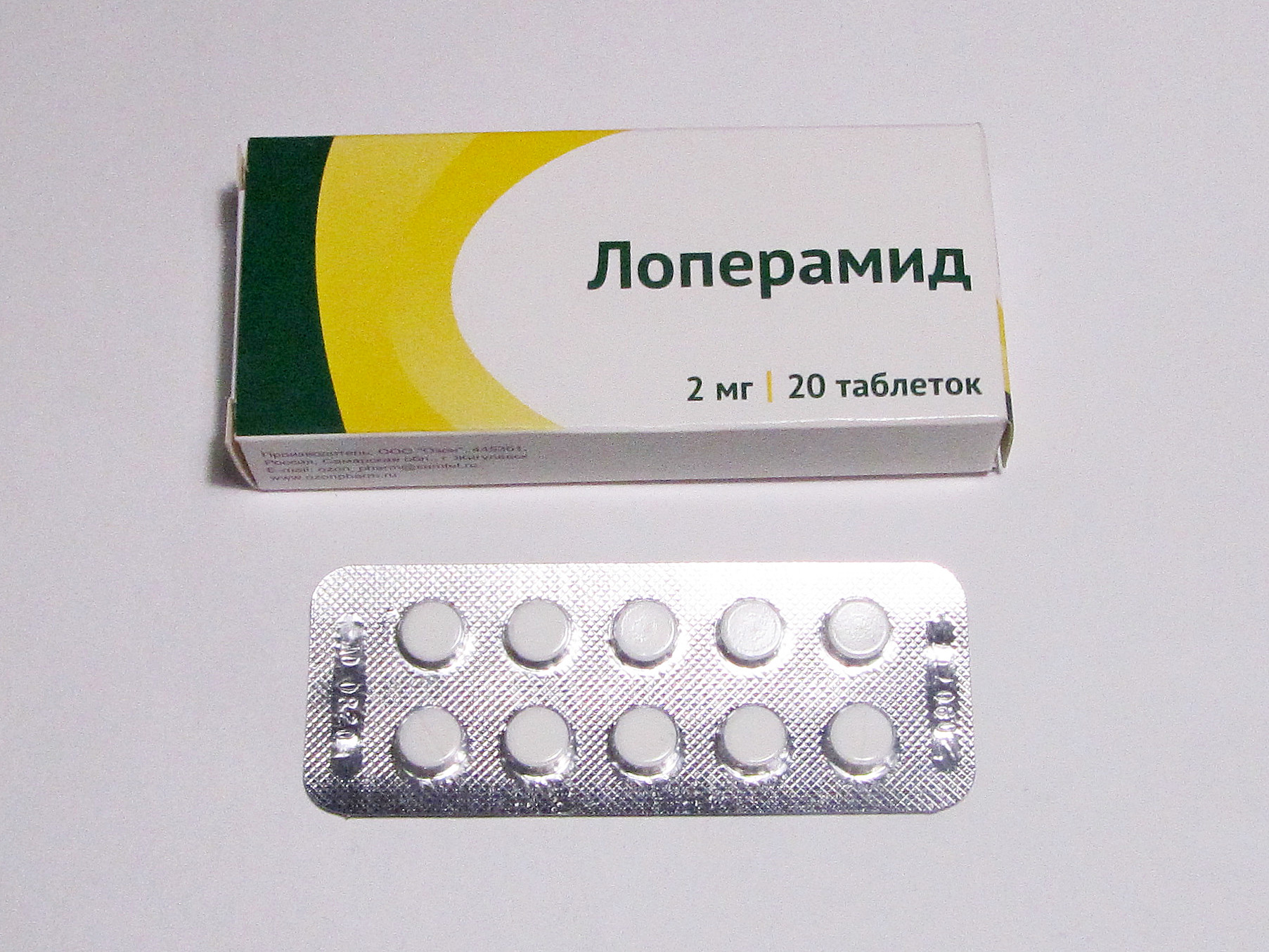 Loperamide